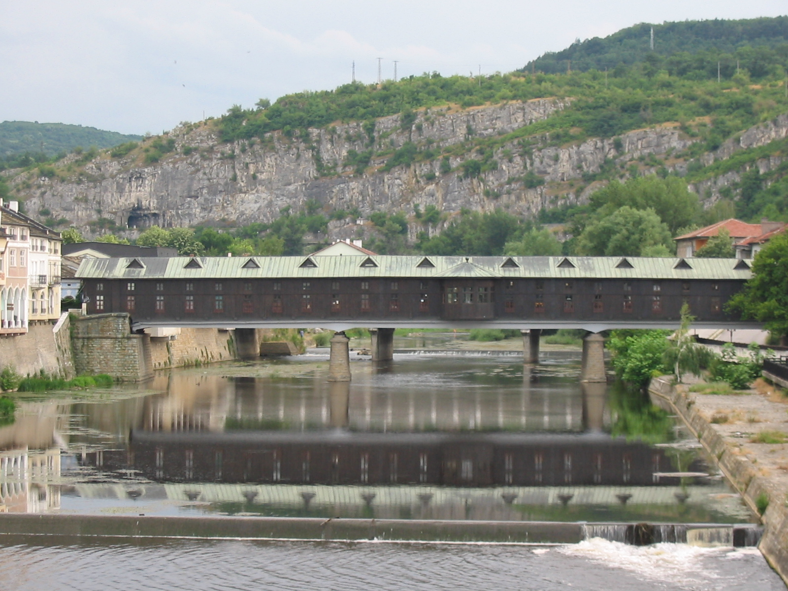 Lovech Roofed Bridge in Bulgaria.